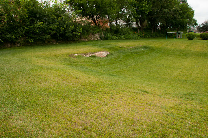 The open field that once held the church.